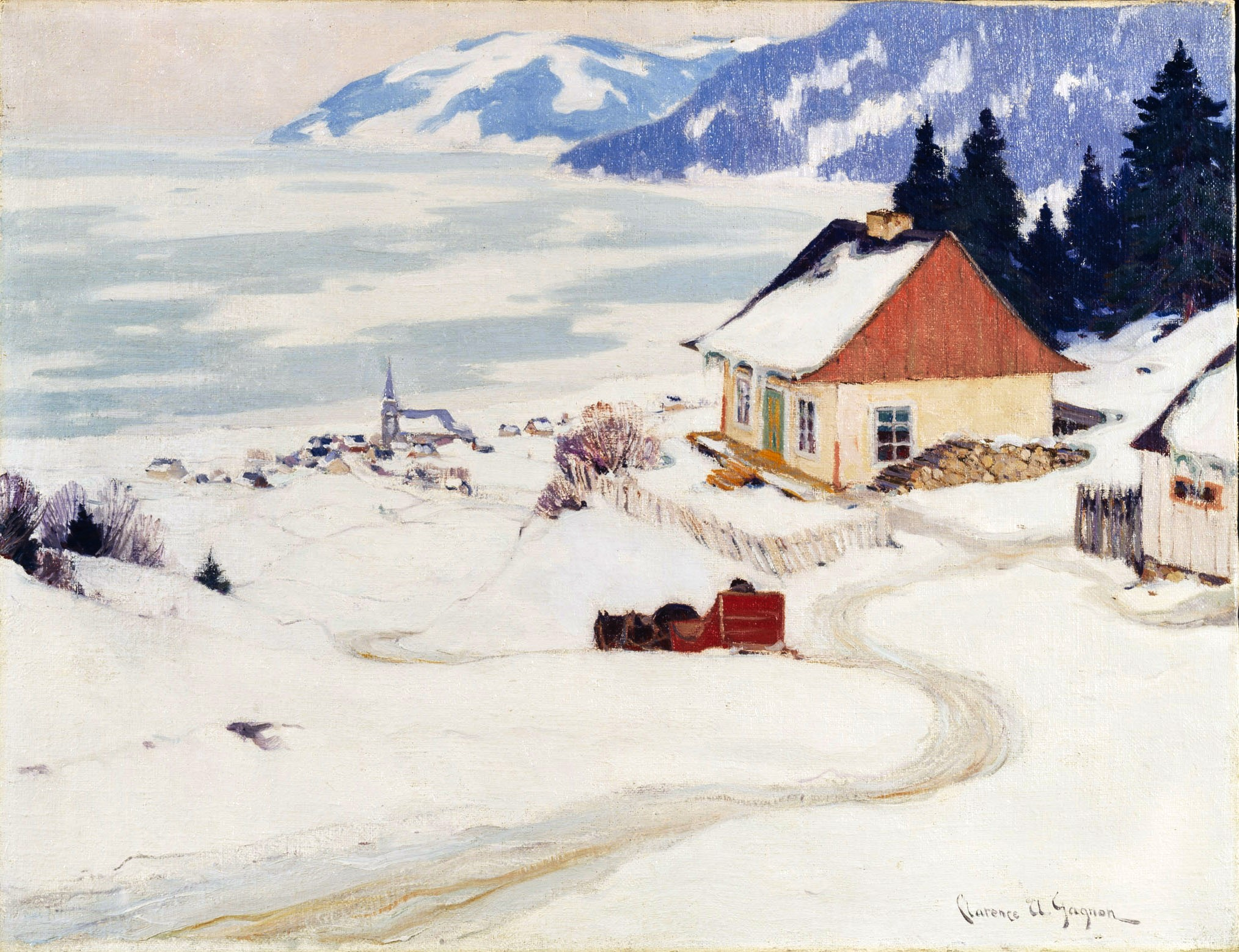 Our gaze is guided by the winding path starting in the foreground and leading us first to the houses on the right, then branching off to the left leading to the village in the distance. Our eye follows the serpentine line of ice on the river, finally joining the mountains and the horizon. He throws on the stage a diffuse lighting that obliterates the shadows. Combined with the almost flattened treatment of colors, this reduces the impression of depth and tends to simplify the composition. This flattening effect is even more evident in the sketch which served as a model for this canvas. The view is much narrower, because almost all the same elements are found this time painted on a narrower support. "La Carriole Rouge" and its pochade testify to the evolution of the style of Gagnon which, from the late 1920s, will tend more and more to assert itself in the plan assuming more its ornamental character.